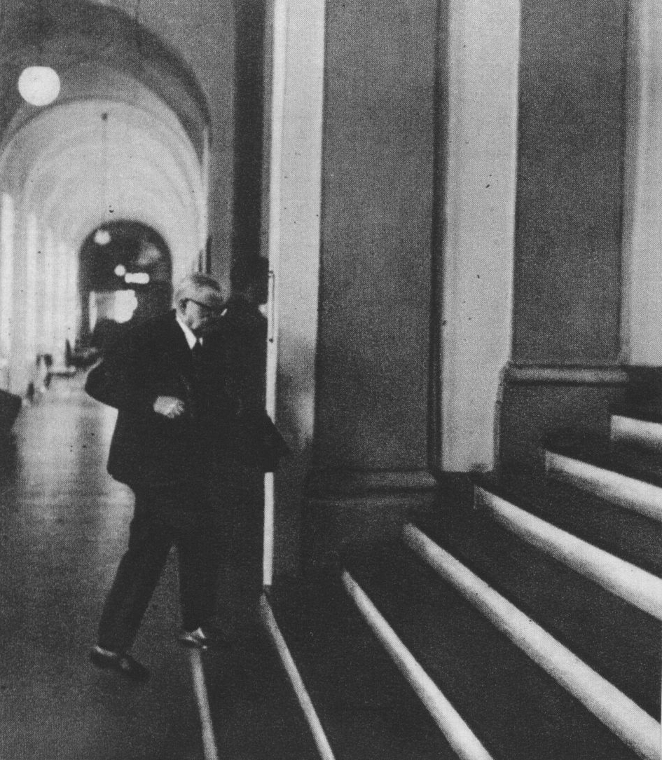 SS-Gruppenführer Bruno Streckenbach at Ludwig Hahn trial in Hamburg.